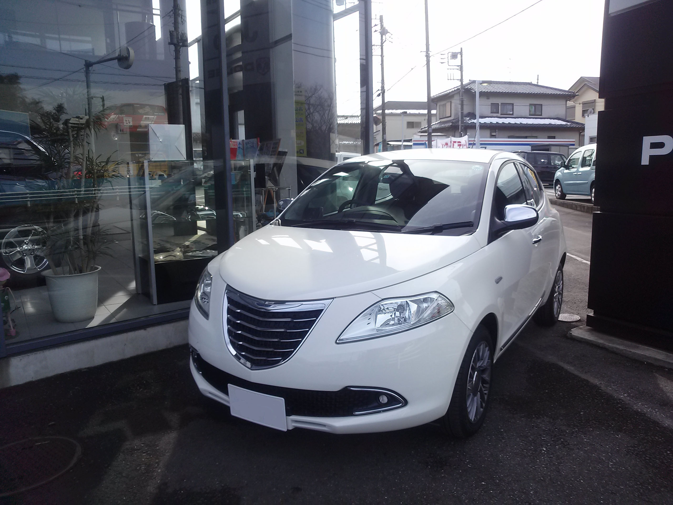 Chrysler Ypsilon